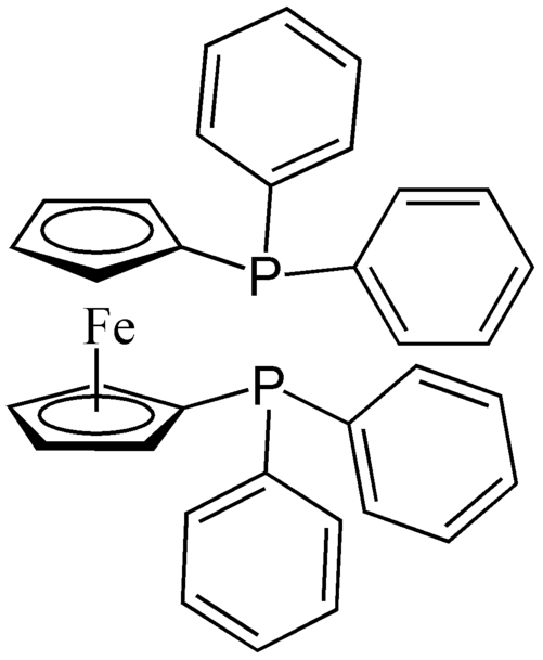 Dppf2.png retouched (transparant background)